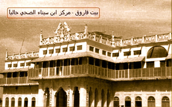 Farooq Mansion In Bahrain featured in the local news. Now Ibn Sena medical centre